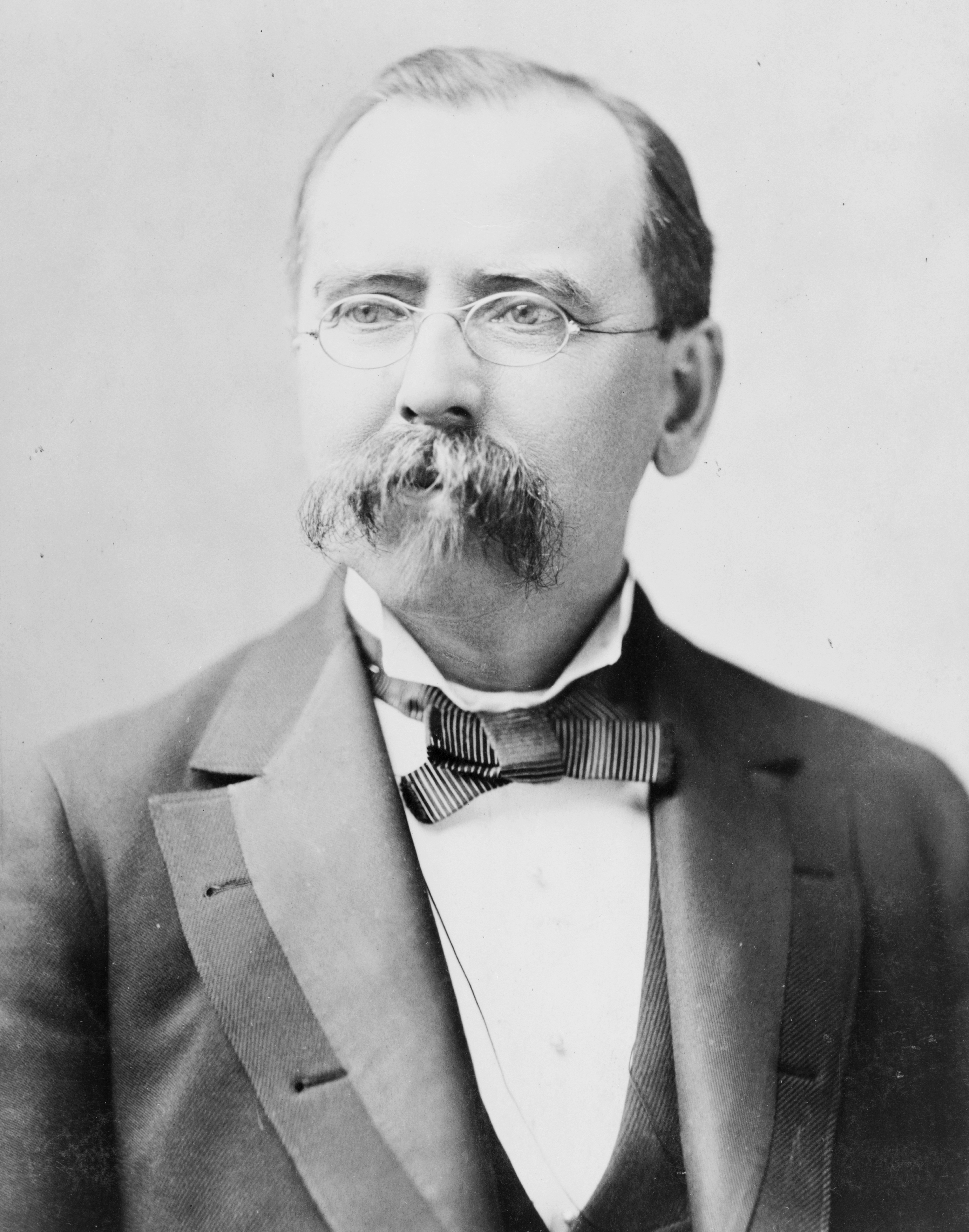 Portrait of William Russell Grace